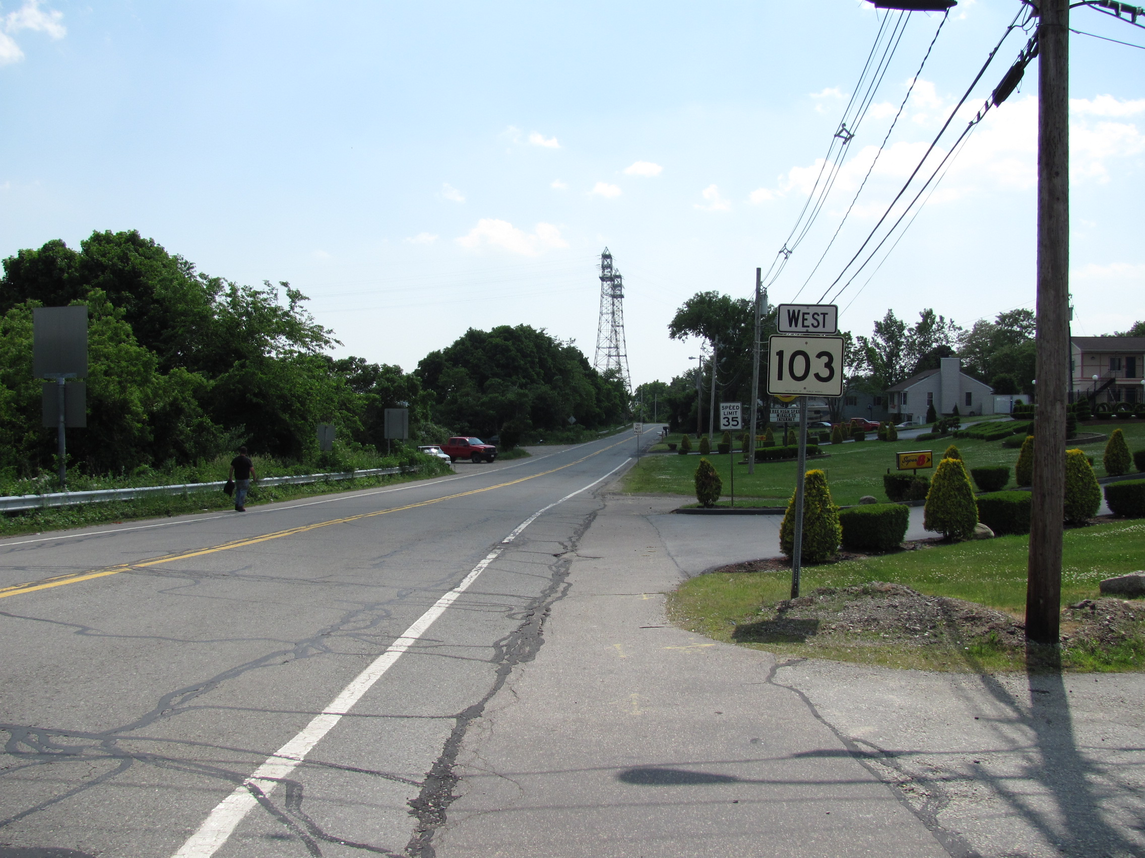 Massachusetts Route 103 southbound at US Route 6, Somerset Massachusetts